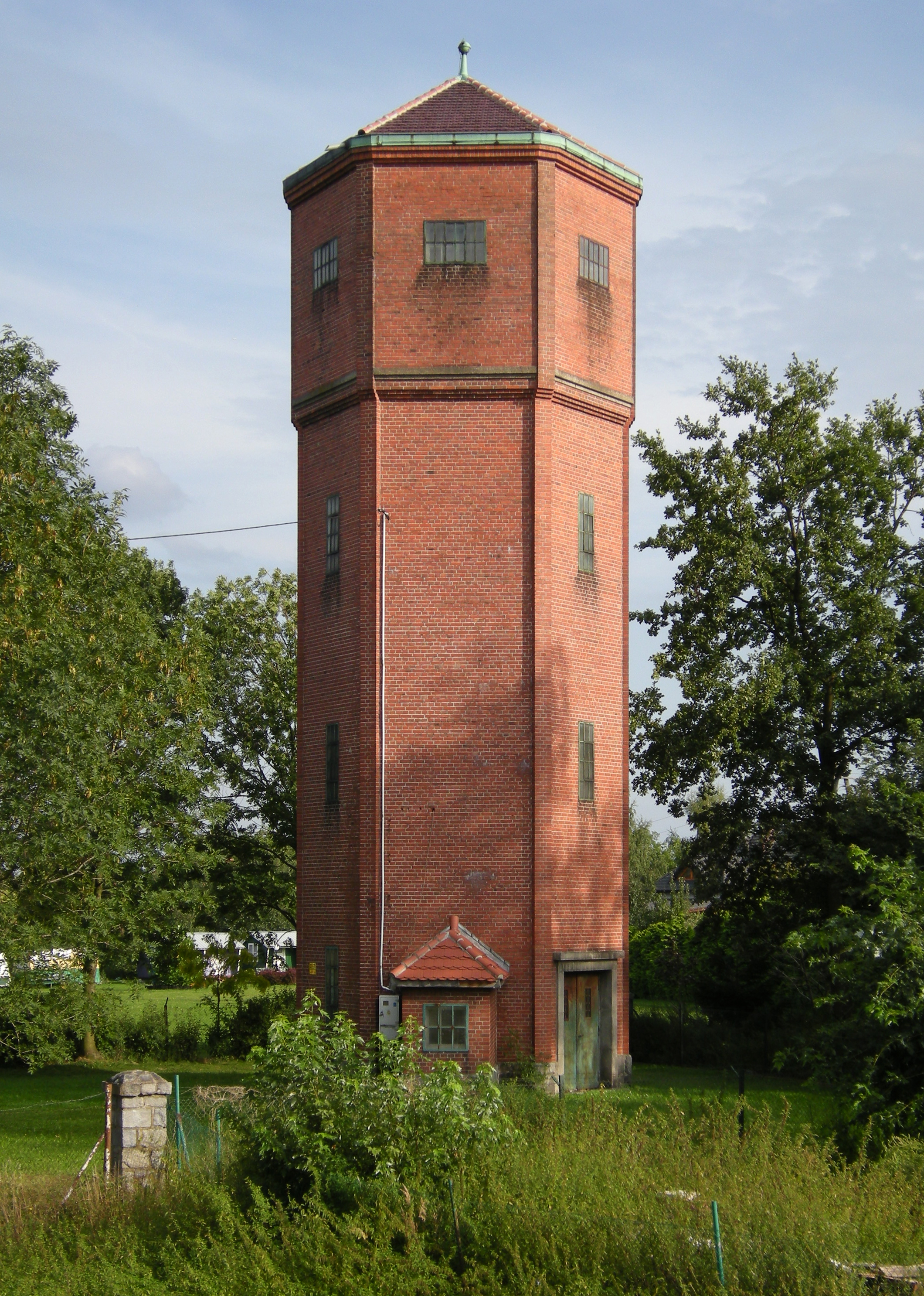 Water tower in Ścibórz